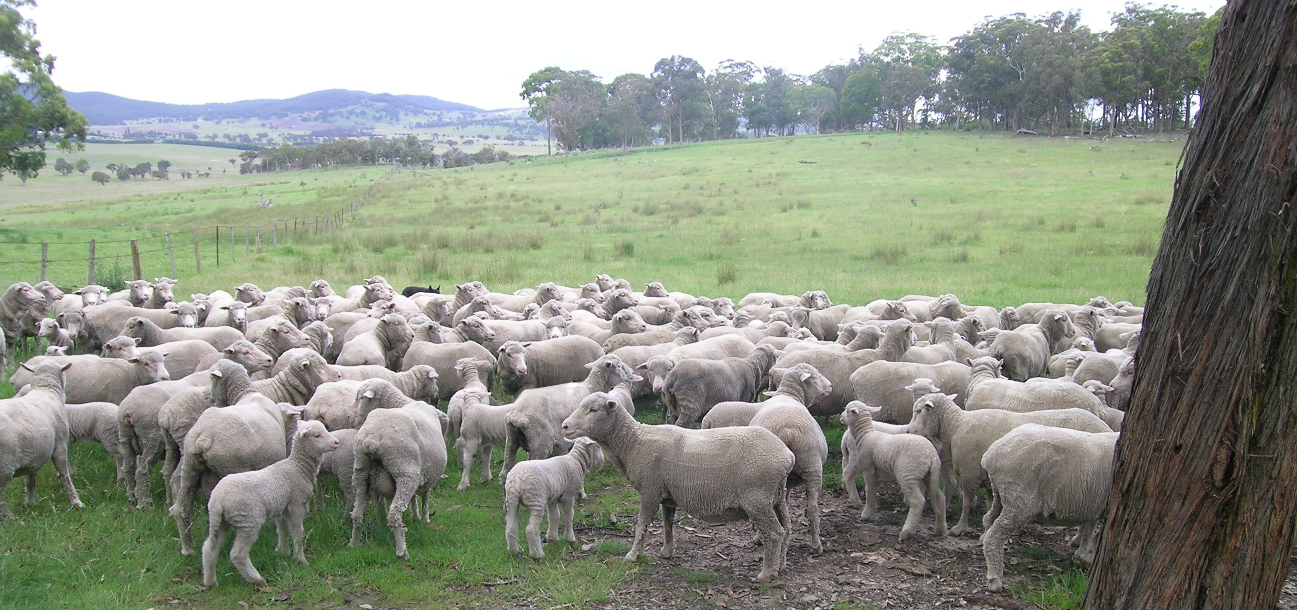 A cropped version of Image:Merino ewes & lambs.JPG. Superfine wool Merino ewes and lambs in Walcha, New South Wales.